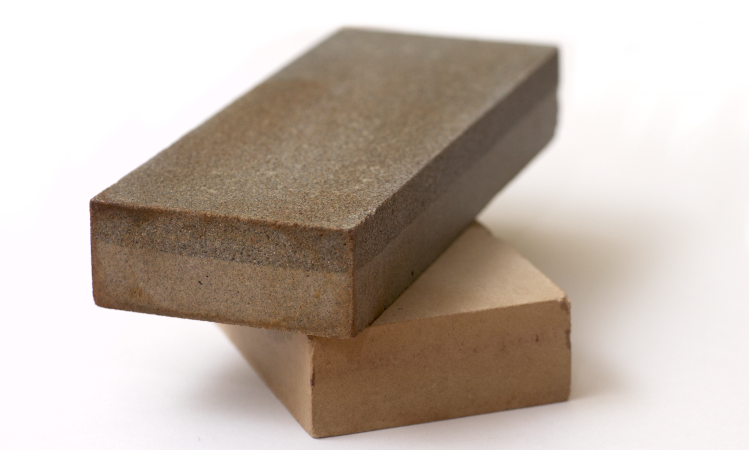 Water stones